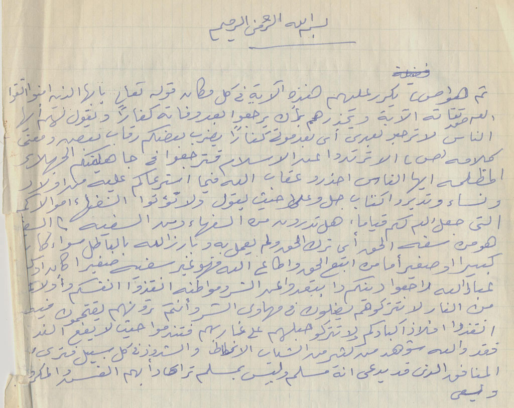 كلمة لعامة المسلمين - الشقيران